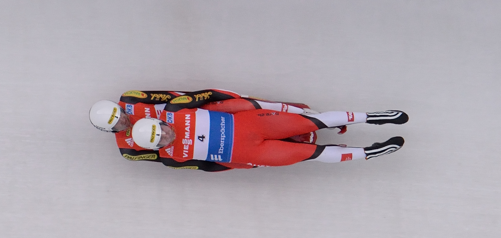 Luge world cup race season 2014/15 in Altenberg/Germany, 19th to 22nd Februar 2015. Day 1: training.